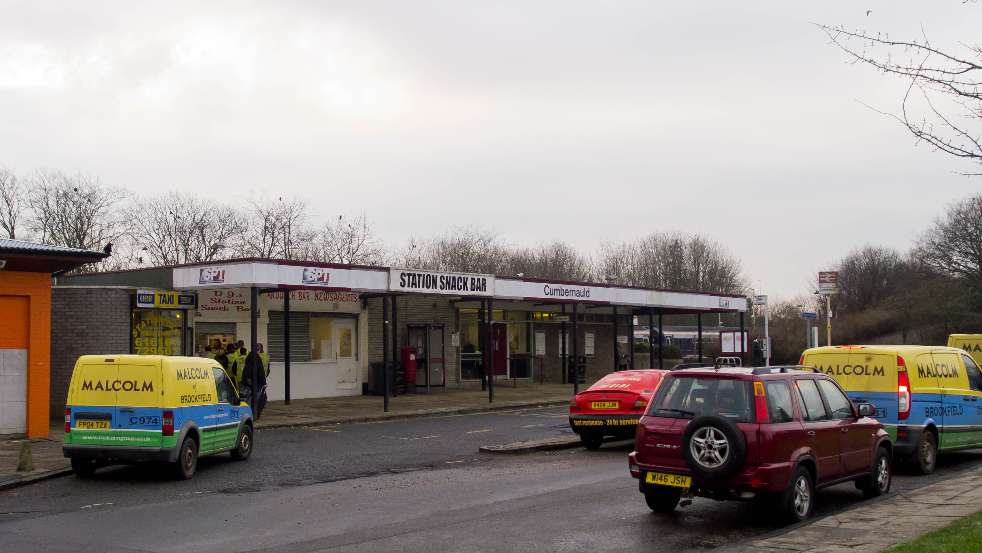 Cumbernauld railway station